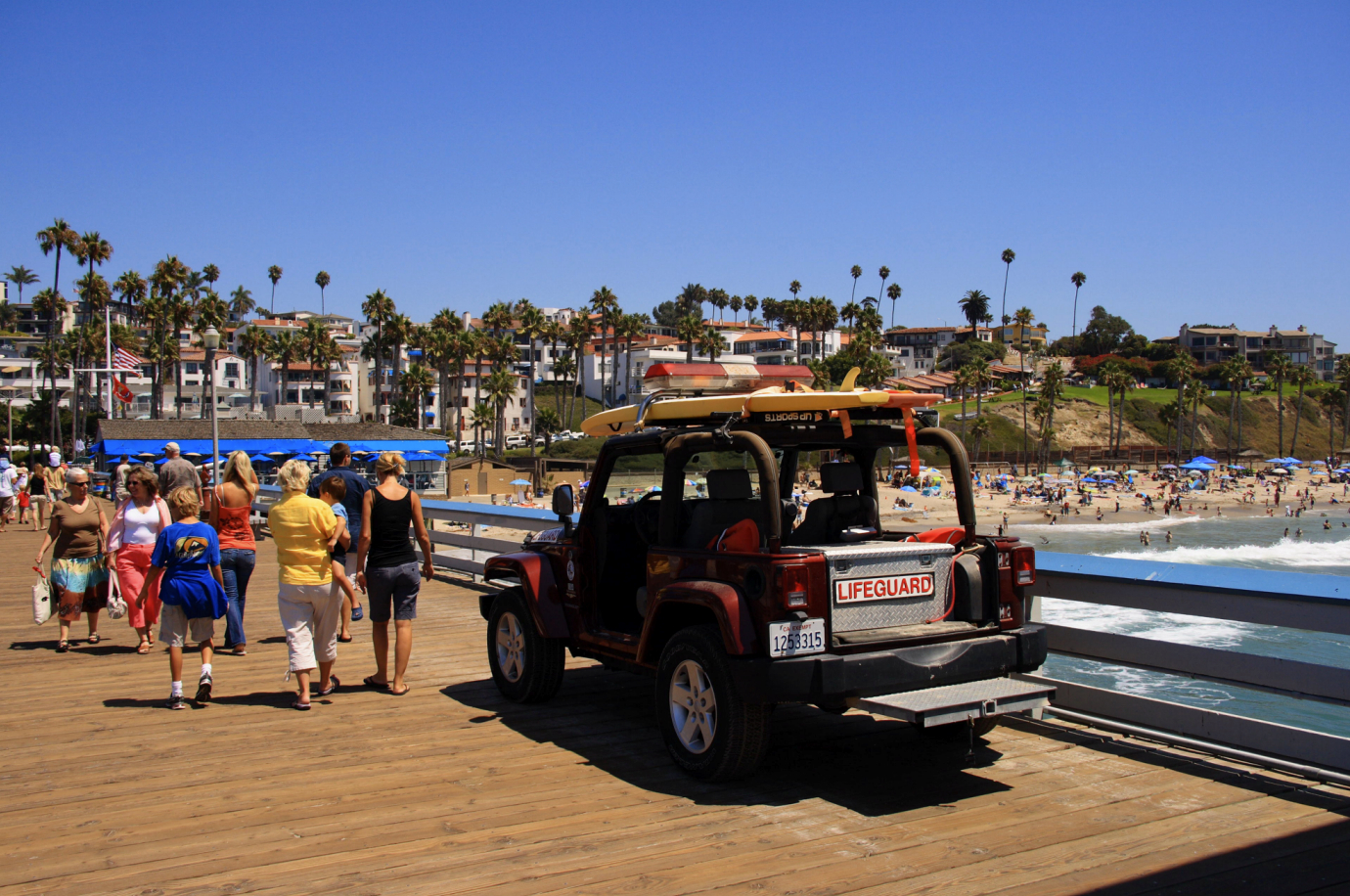 On San Clemente Pier in San Clemente, California.